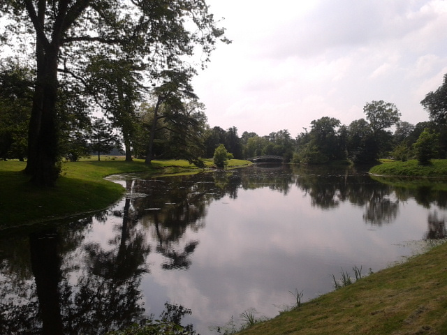 The man made lake in the park of Croome Court, Worcestershire, designed by Lancelot 'Capability' Brown in the mid 18th Century. The island can be seen to the right of the image.